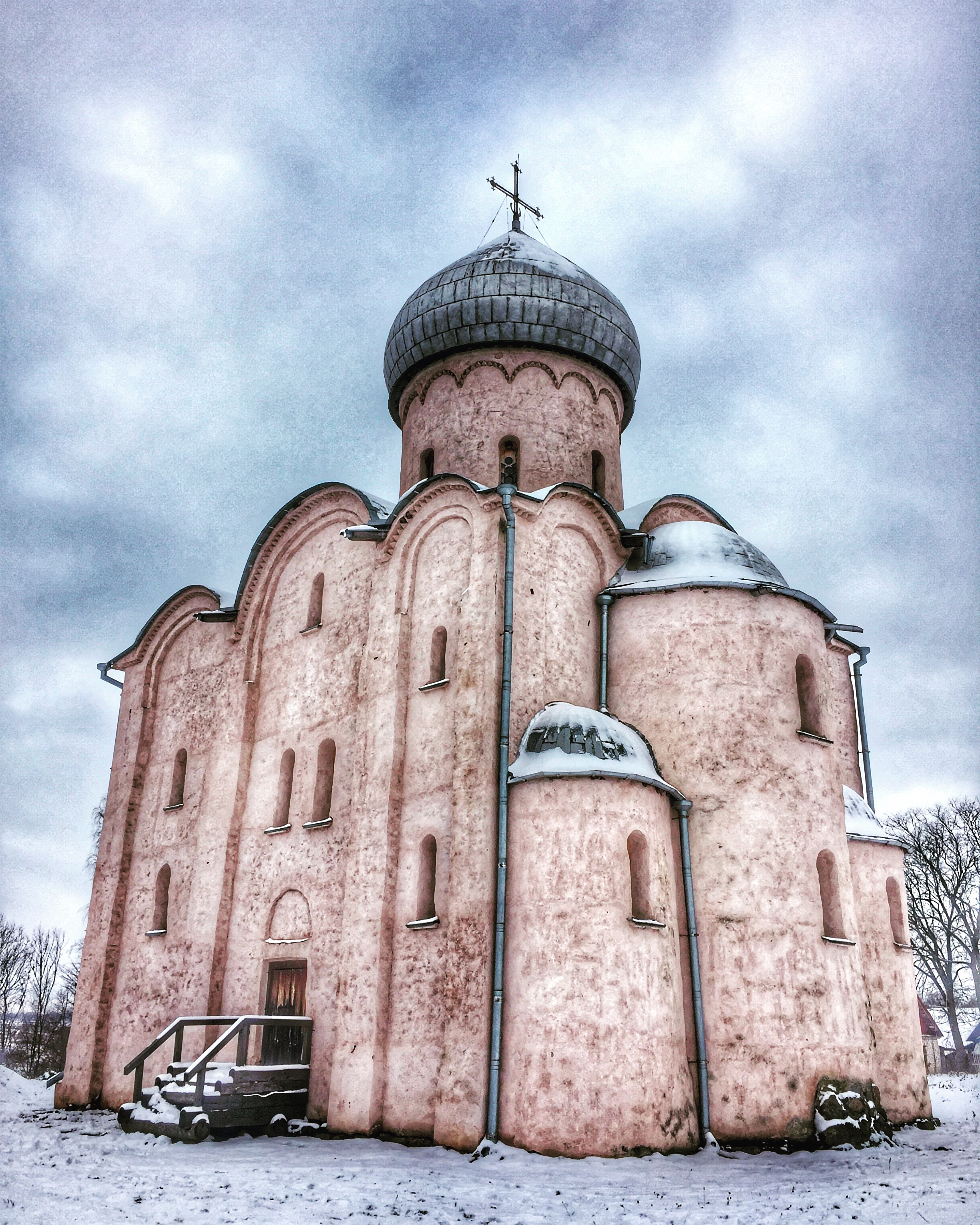 The Saviour Church on Nereditsa (Russian: Церковь Спаса на Нередице, Tserkov Spasa na Nereditse) is an orthodox church built in 1198. It is one of Russia's oldest churches.